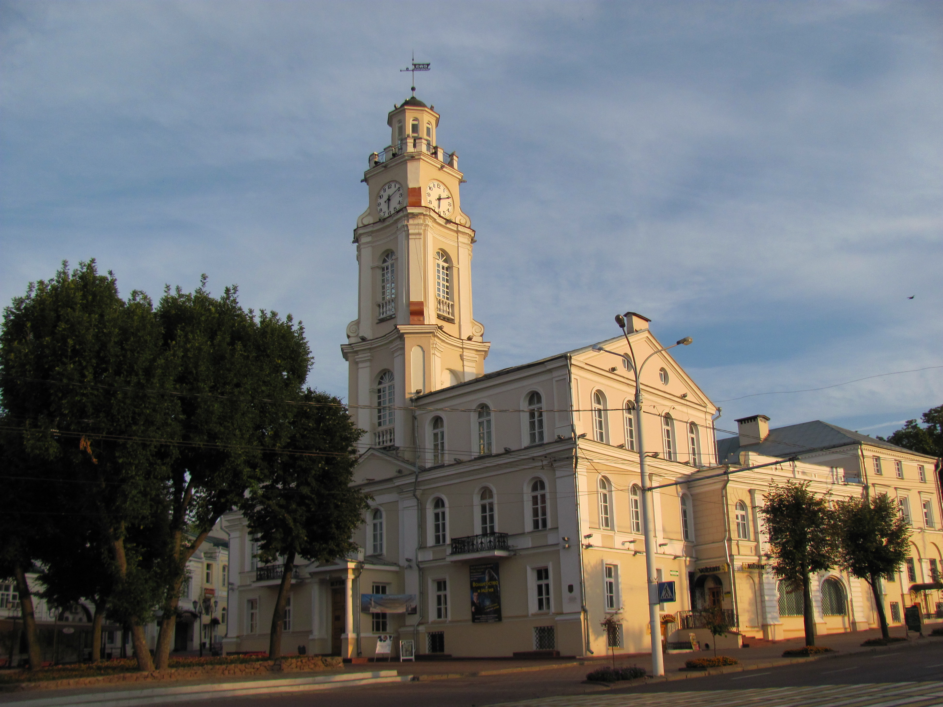 Witebska miejska ratusza z drugiej połowy XVIII st., teraz Muzeum historyczny.